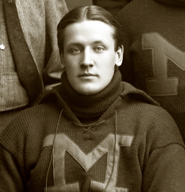 Photograph of John Bennett